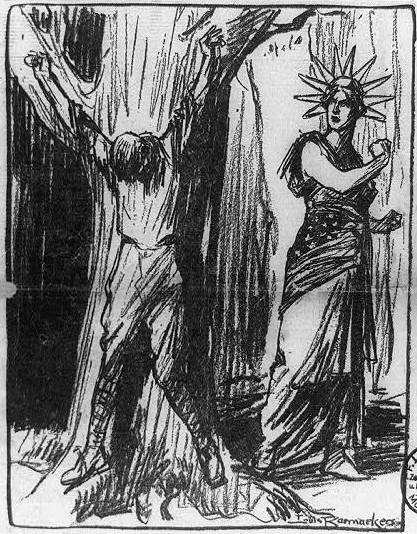 Illustration with title "Wake up America!" and caption: "This was done to Canadians by the Huns. Will America wait to see it done to her soldiers before waking up to the entire earnestness of the war?" Drawing shows dead Canadian soldier suspended from a tree and Lady Liberty drawing away in horror. The illustration refers to the story of a Canadian soldier crucified on a barn door and surrounded by jeering Germans.